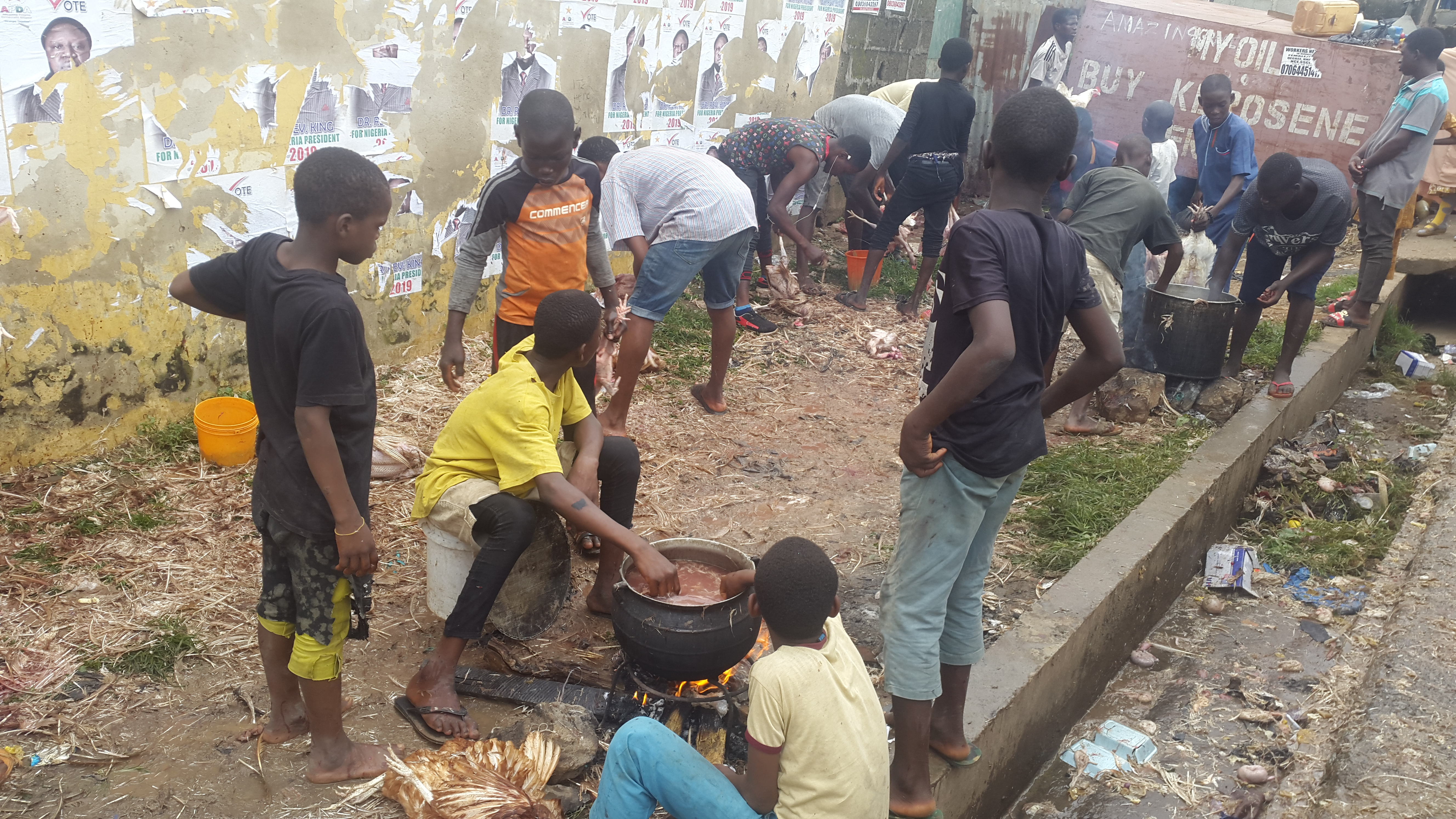 No or incorrect country code indicated in the Wiki Loves Africa 2019 country template